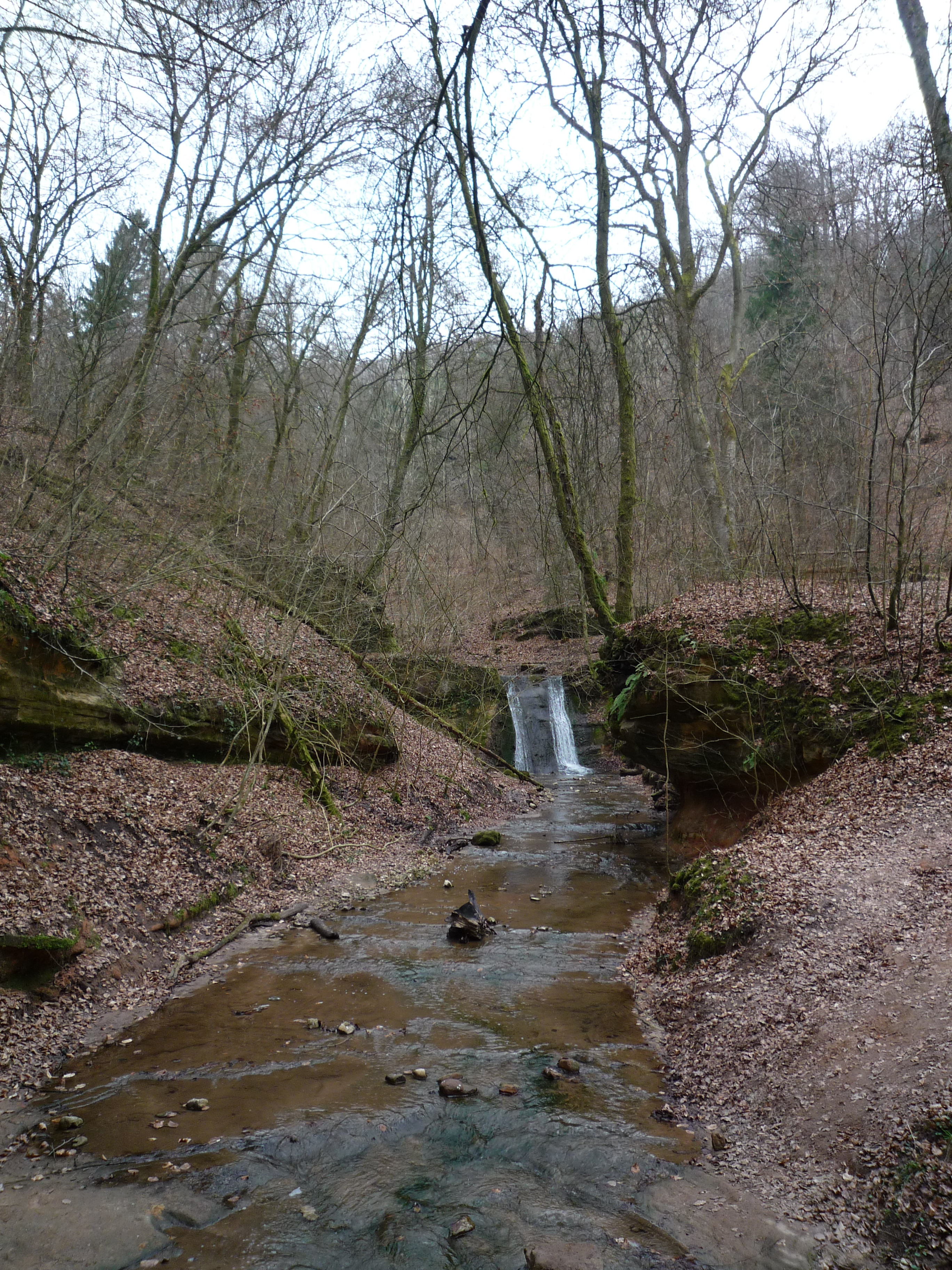 Waterfall of Sirzenicher Bach, near Trier